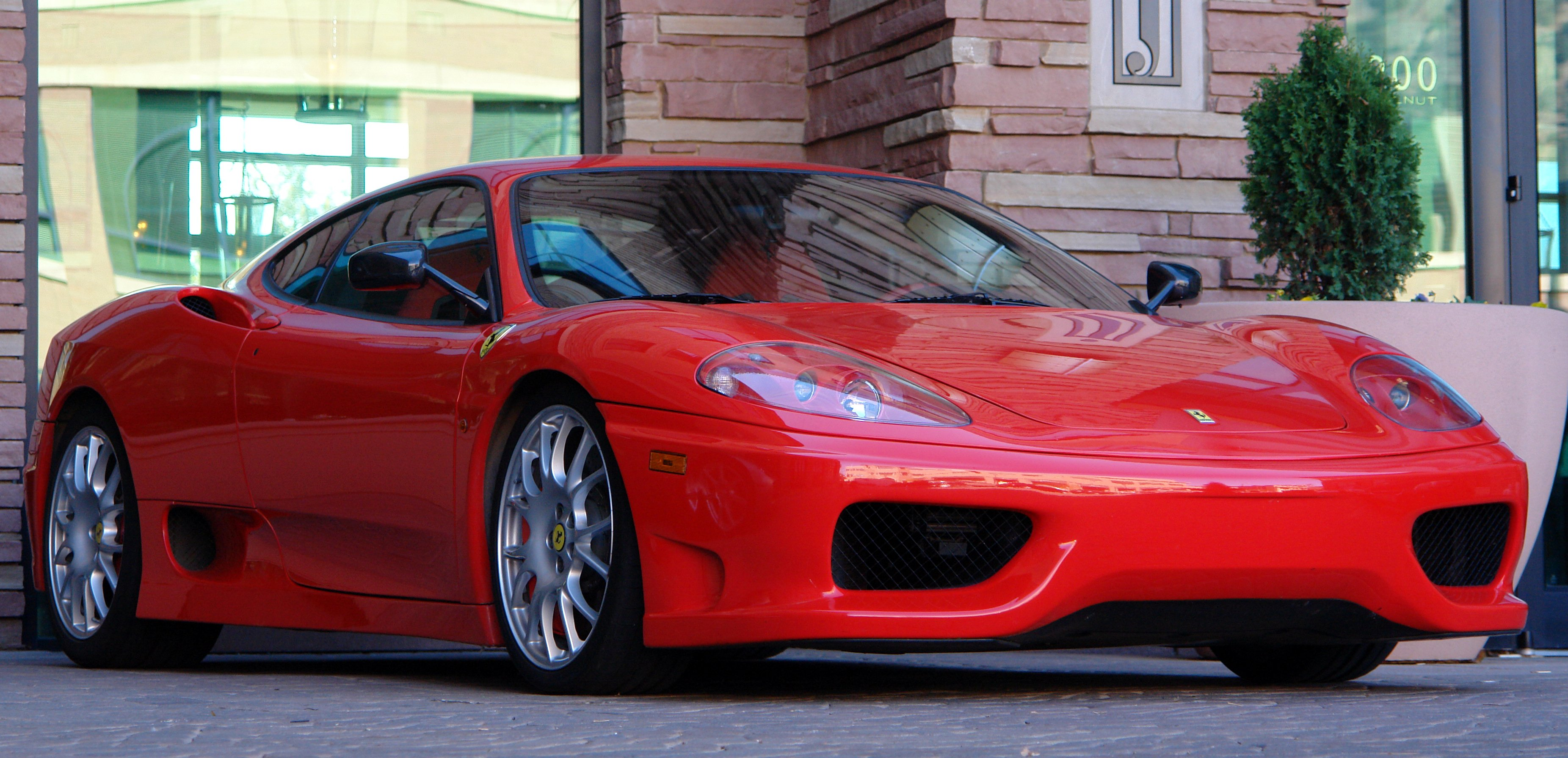 A Ferrari 360 Challenge Stradale I saw in front of St. Julian's in Boulder, CO.